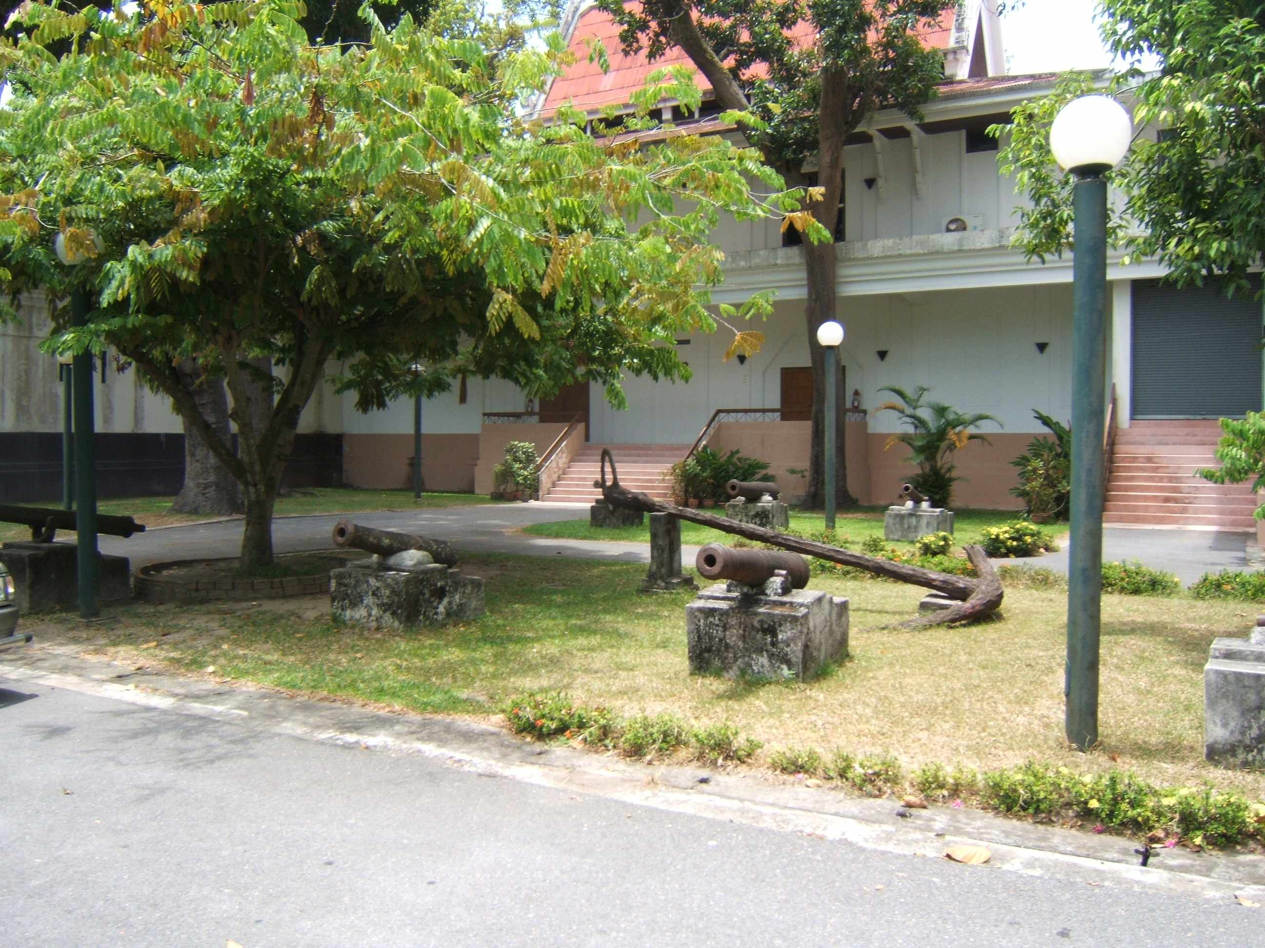 Detail National Museum Nakhon Si Thammarat with the library building in the background